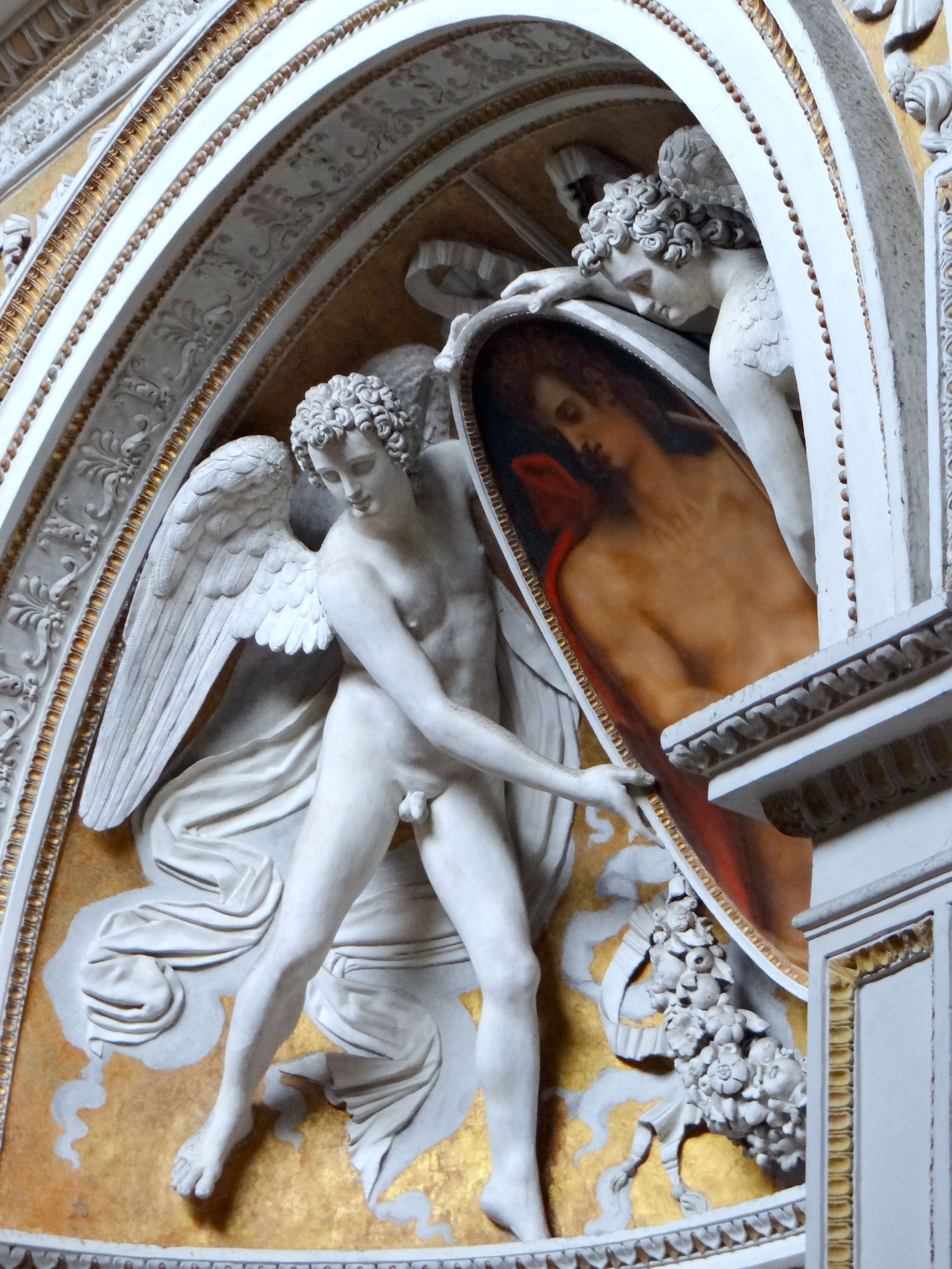 White stucco angels holding a medaillon of St John the Baptist in the Theodoli Chapel, Santa Maria del Popolo. Worky by Giulio Mazzoni.